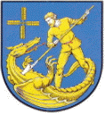 Coat of arms of Sankt Michaelisdonn Blasonierung: In Blau ein barhäuptiger, bärtiger Mann (St. Michael) mit blondem Haar in goldener bäuerlicher Kleidung, der einem auf dem Rücken liegenden, rotbewehrten goldenen Drachen eine Lanze mit goldenem Schaft und einem silbernen Sensenblatt als Spitze in den Hals stößt und oben rechts von vier ins Kreuz gestellten goldenen Windmühlenflügeln begleitet wird.